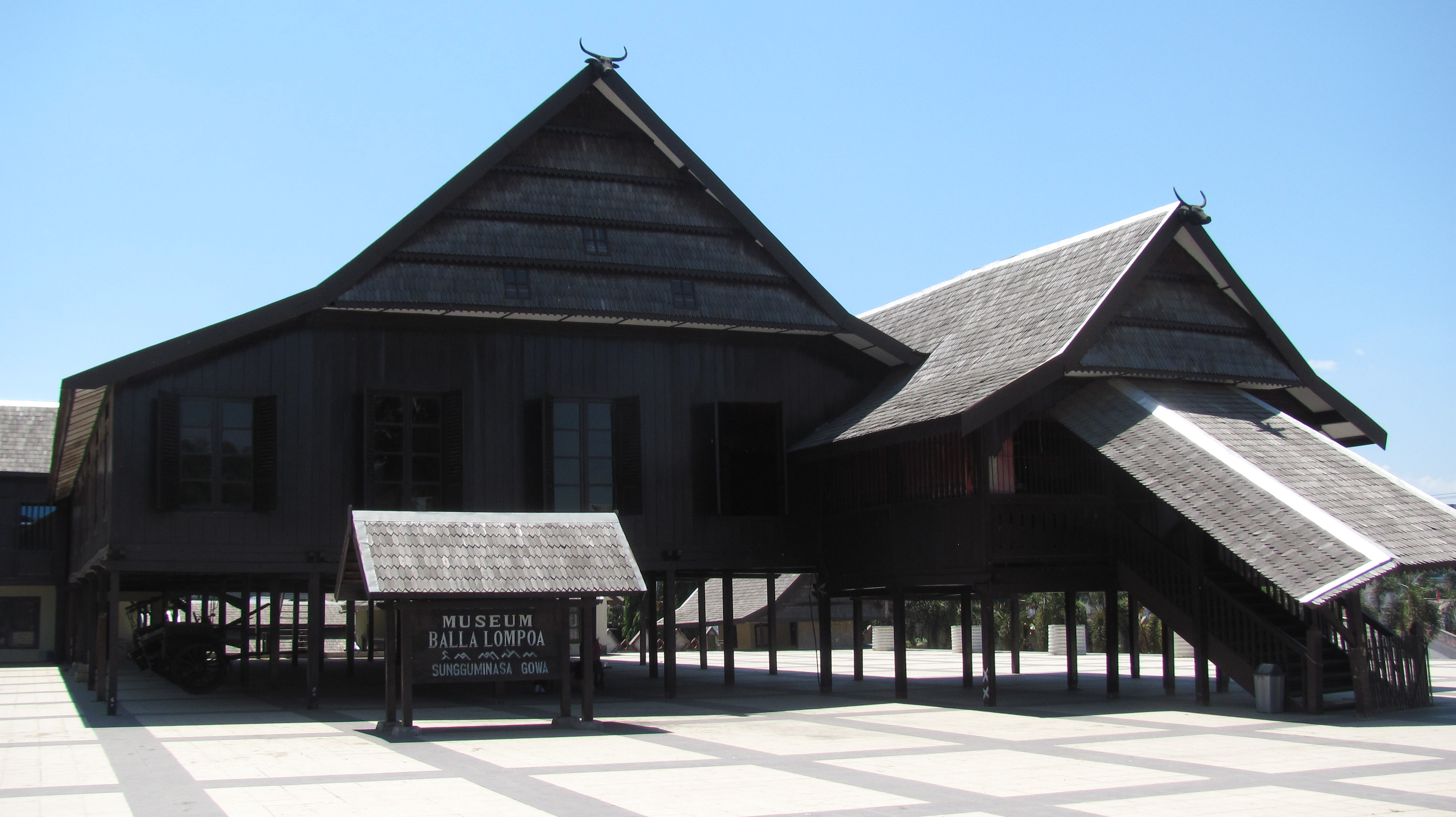 Museum Balla Lompoa, Sungguminasa, Sulawesi, Indonesia